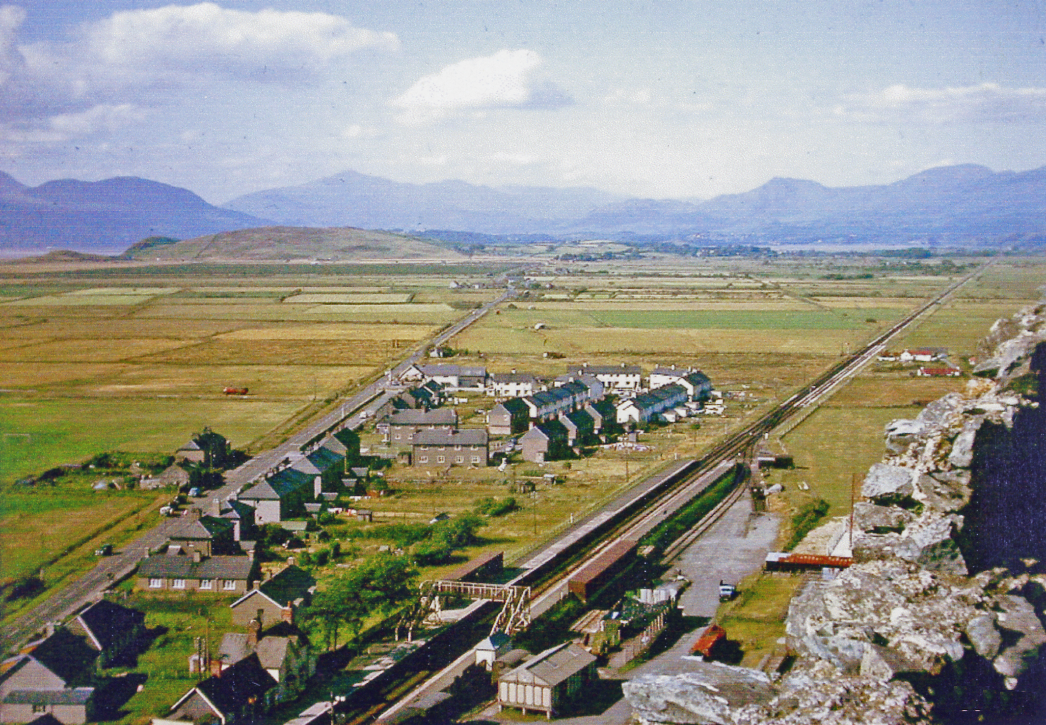 Panorama northward from Harlech Castle over Morfa Harlech to Snowdon, 1964.